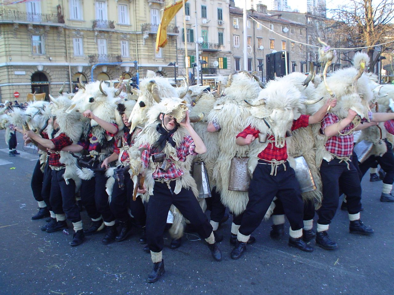 Rijeka Carnival - The bellmen – "Grobnički dondolaši" (group), Croatia.